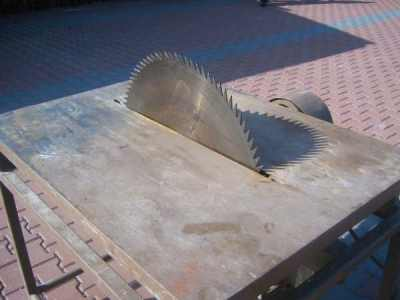 Circular saw small